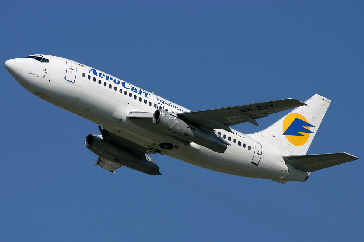 An AeroSvit Ukrainian Airlines Boeing 737-2Q8/Adv departs Kiev Boryspil Airport (KBP / UKBB)